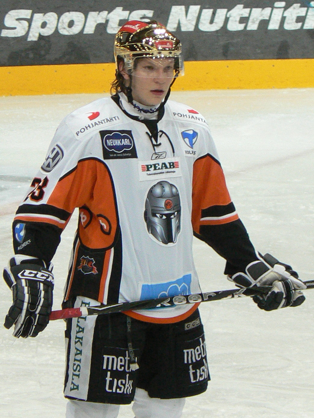 Finnish ice hockey forward Joonas Kemppainen playing for Hämeenlinna HPK in October 2009, wearing the golden helmet of the leading scorer of the team.